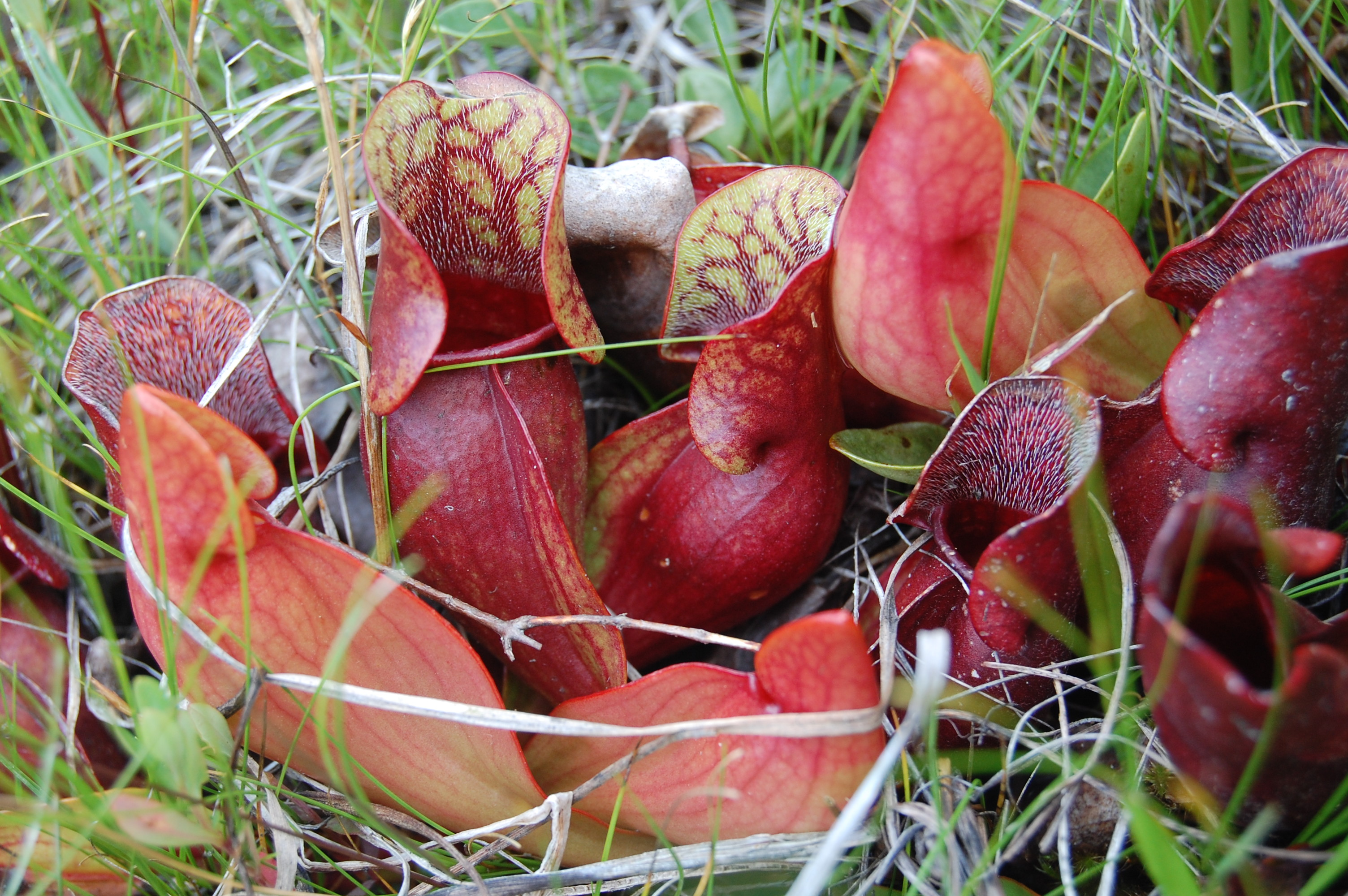 Purple pitcher plant (Sarracenia purpurea) at Singing Sands Beach in Bruce County, Ontario